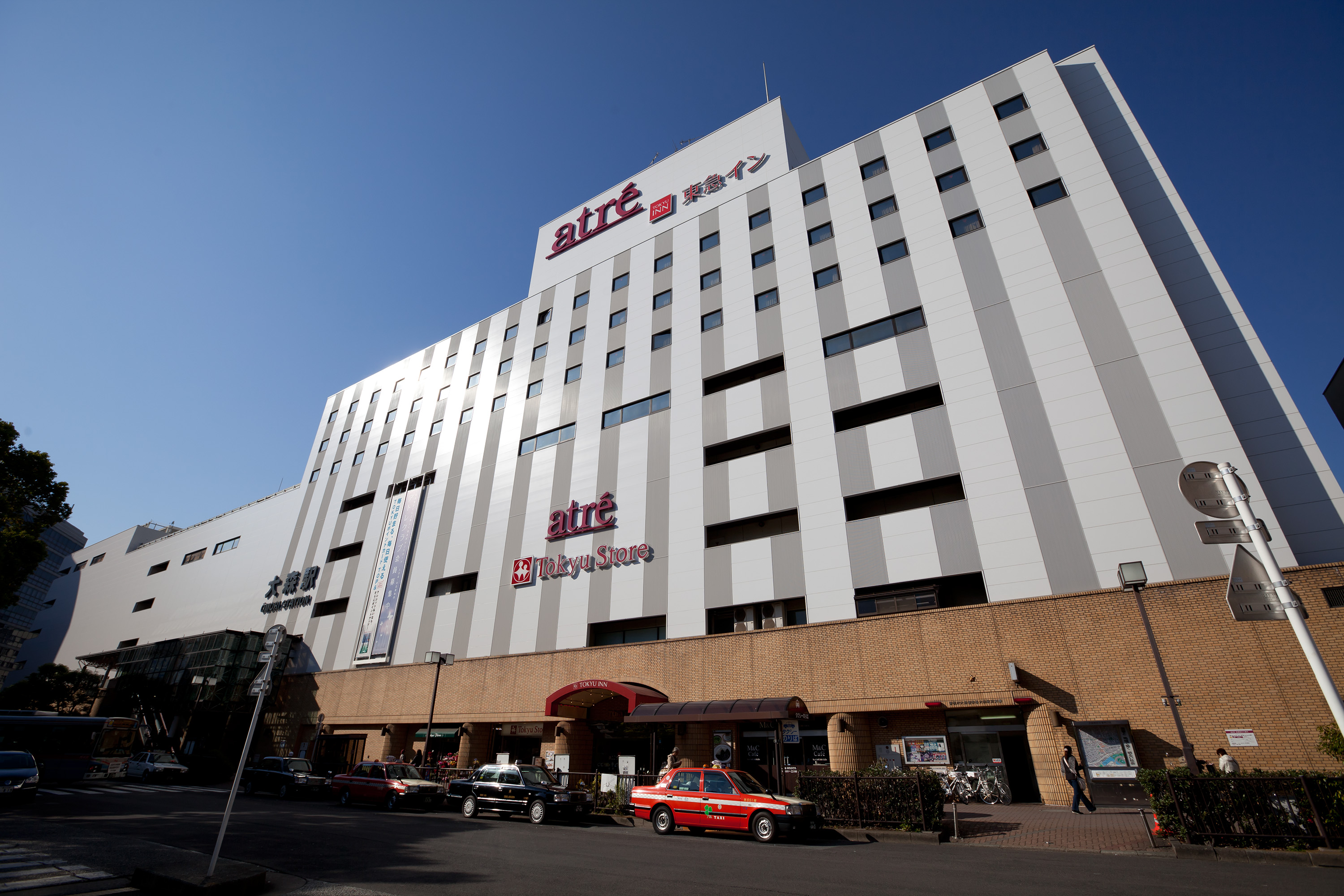 Ōmori Station in Tokyo, Japan